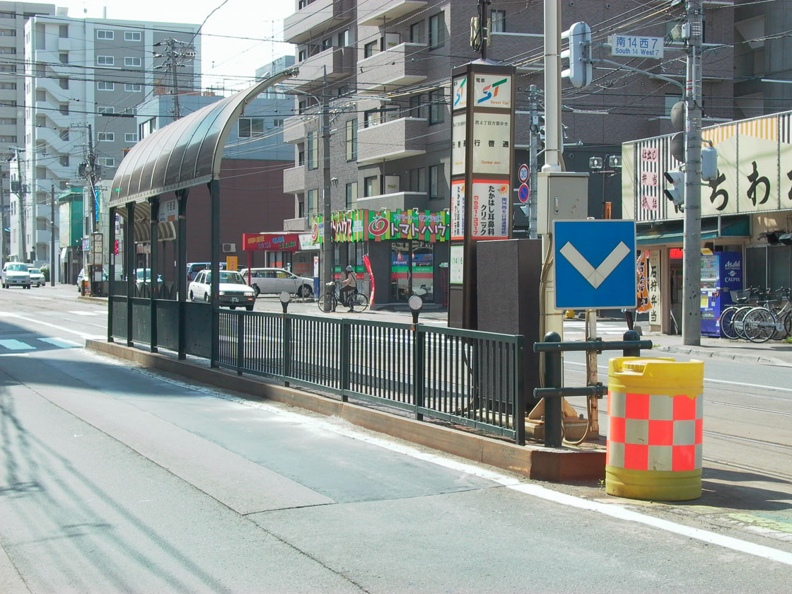 Gyokei Dori station Sapporo, Hokkaido, Japan